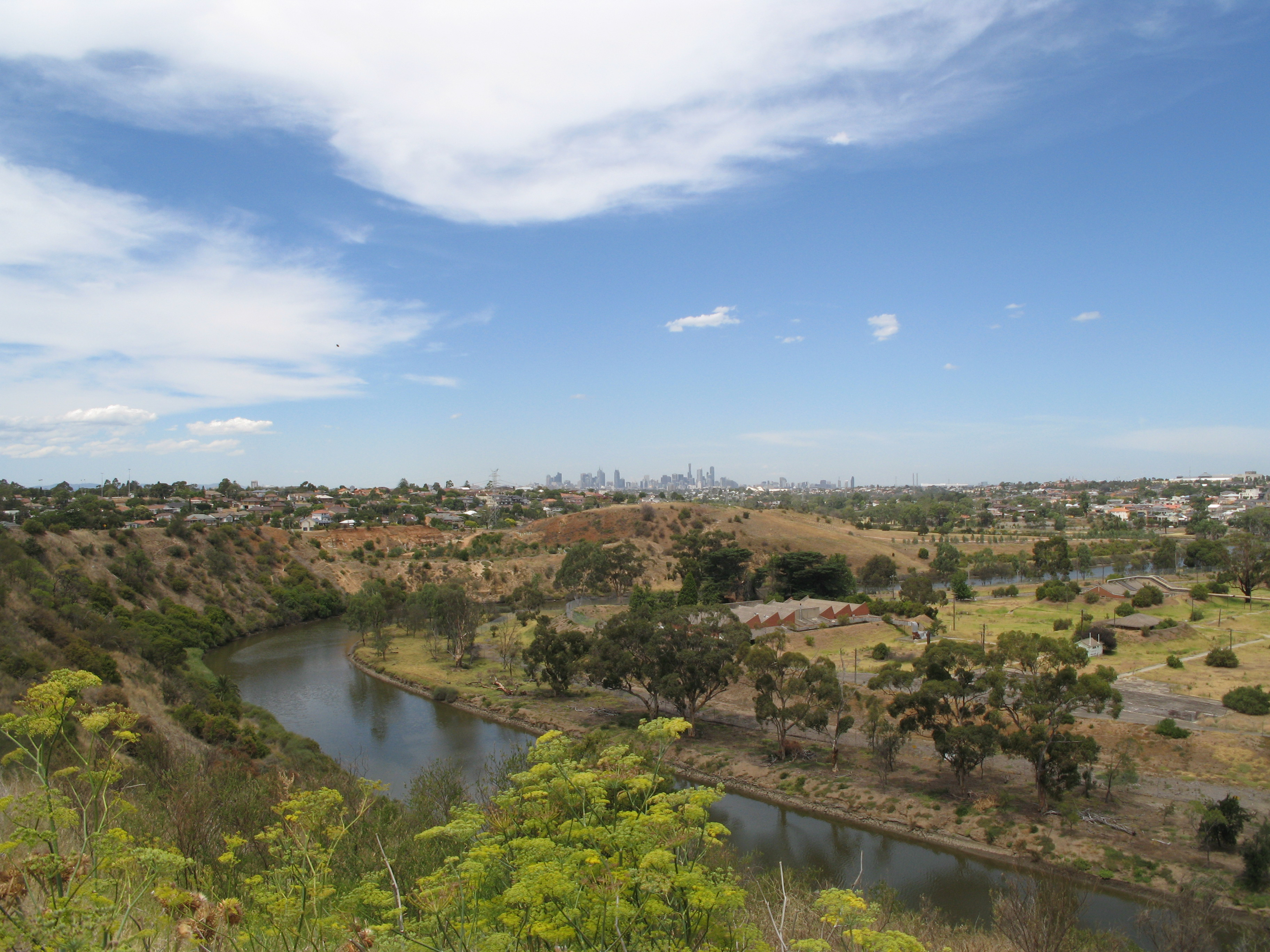 The Maribyrnong River at Essendon West looking southeast towards the city, central Melbourne, Australia. Photo taken by myself in jan/feb 2010.